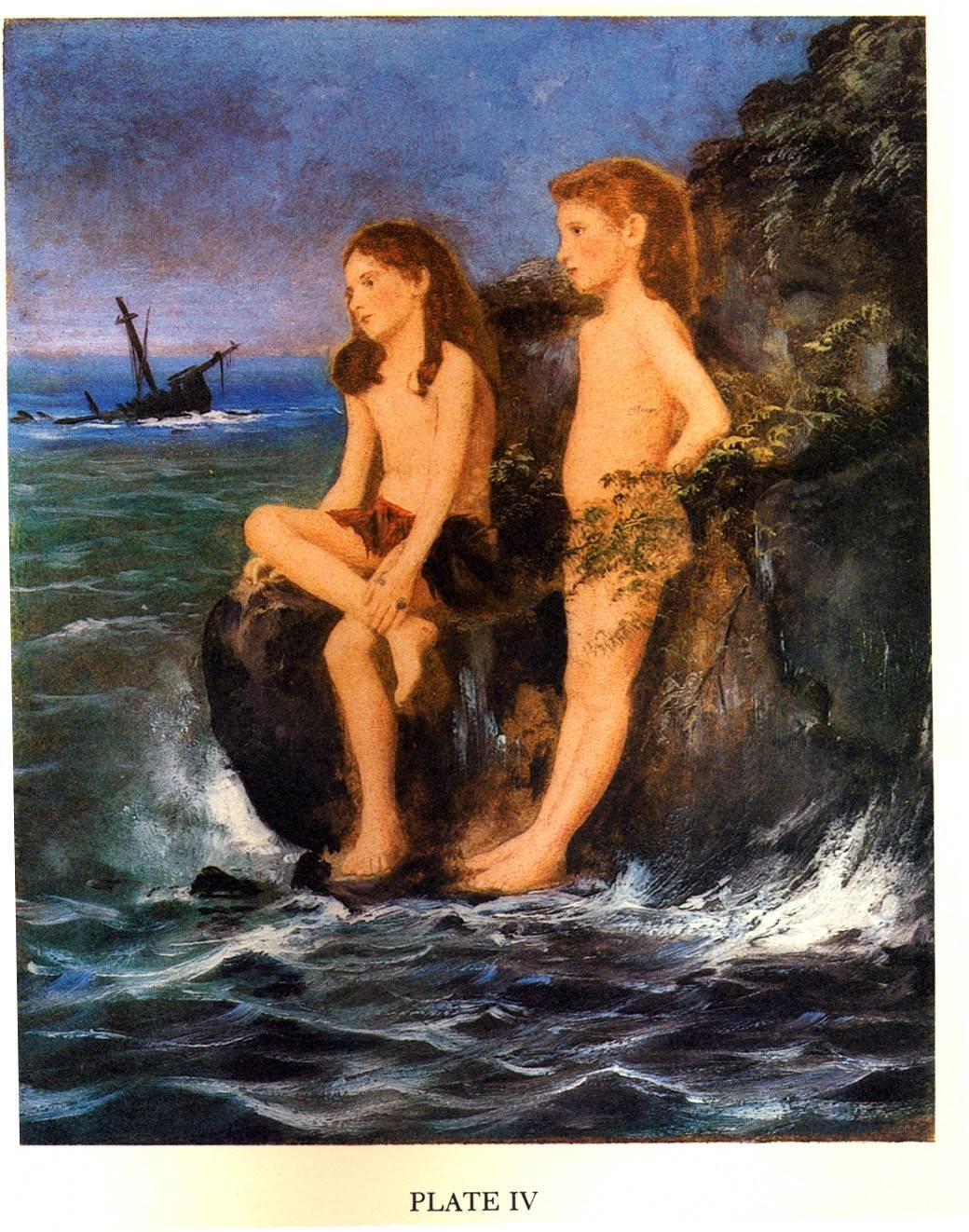 Annie and Frances Henderson, july 1879